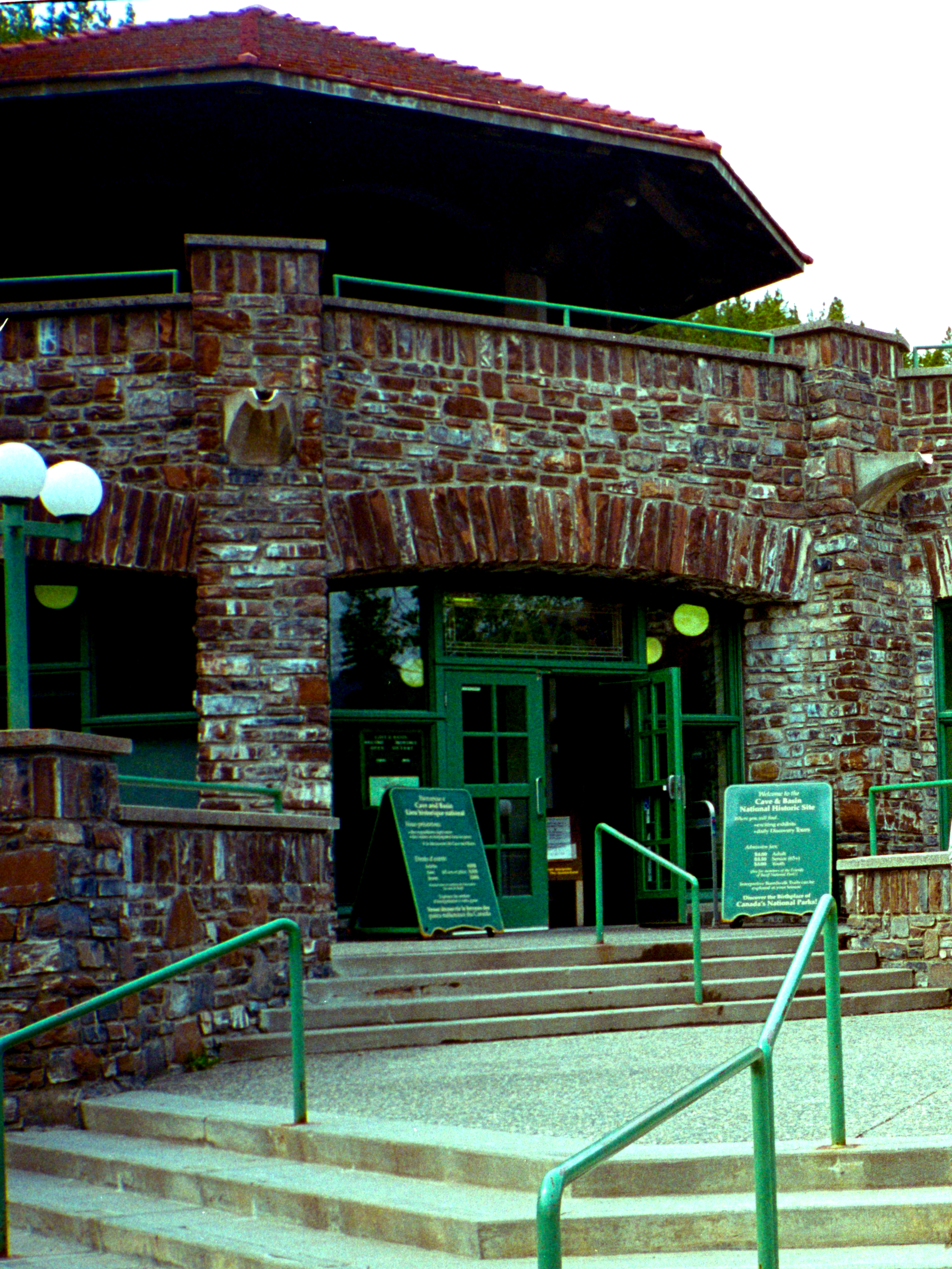 Cave and Basin National Historic Site in Banff, Alberta, Canada. The entrance to the museum. Location on the Banff historical walking tour.